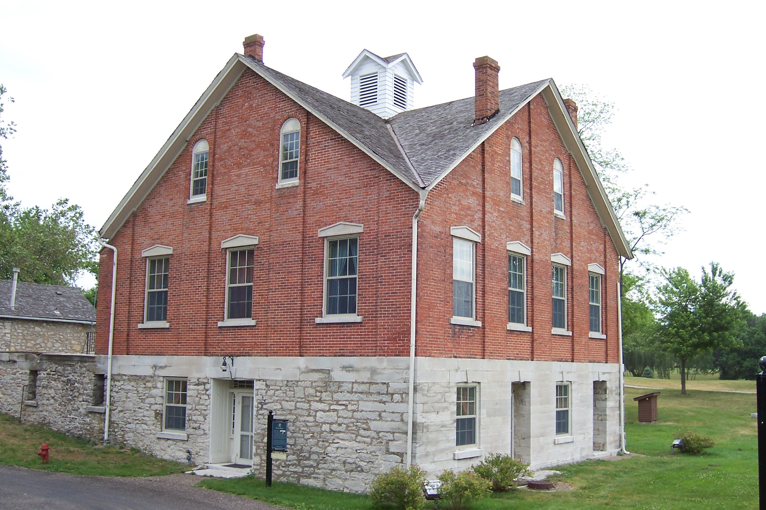 In 1841 a group of investors, led by Joseph Smith, began a project to create a three-story hotel called the Nauvoo House. Construction continued after Joseph's death in 1844 but when most Church Members left for Utah just two years later, the building was abandoned, only partially completed. In 1847 Joseph's Widow, Emma Smith, married Lewis Bidamon. Sometime prior to 1869 Bidamon revived the project out of leftover material and created a smaller brick building on the original foundation. He and Emma planned to live in the home the rest of their lives. They called their new home the Riverside Mansion where Emma kept busy taking on boarders who visited the old river town.